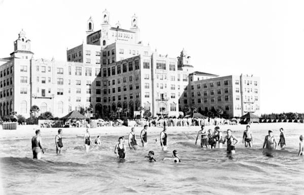 Local call number: PR08361 Title: Don CeSar Hotel: St. Petersburg Beach, Florida Date: ca. 1928 General note The Don CeSar Hotel, located at 3400 Gulf Blvd. in St. Petersburg Beach, Florida, opened in January 1928. It was added to the National Register of Historic Places in 1975. Physical descrip: 1 photonegative - b&w - 4 x 6 in. Series Title: Print Collections Repository: State Library and Archives of Florida, 500 S. Bronough St., Tallahassee, FL 32399-0250 USA. Contact: 850.245.6700. Persistent URL